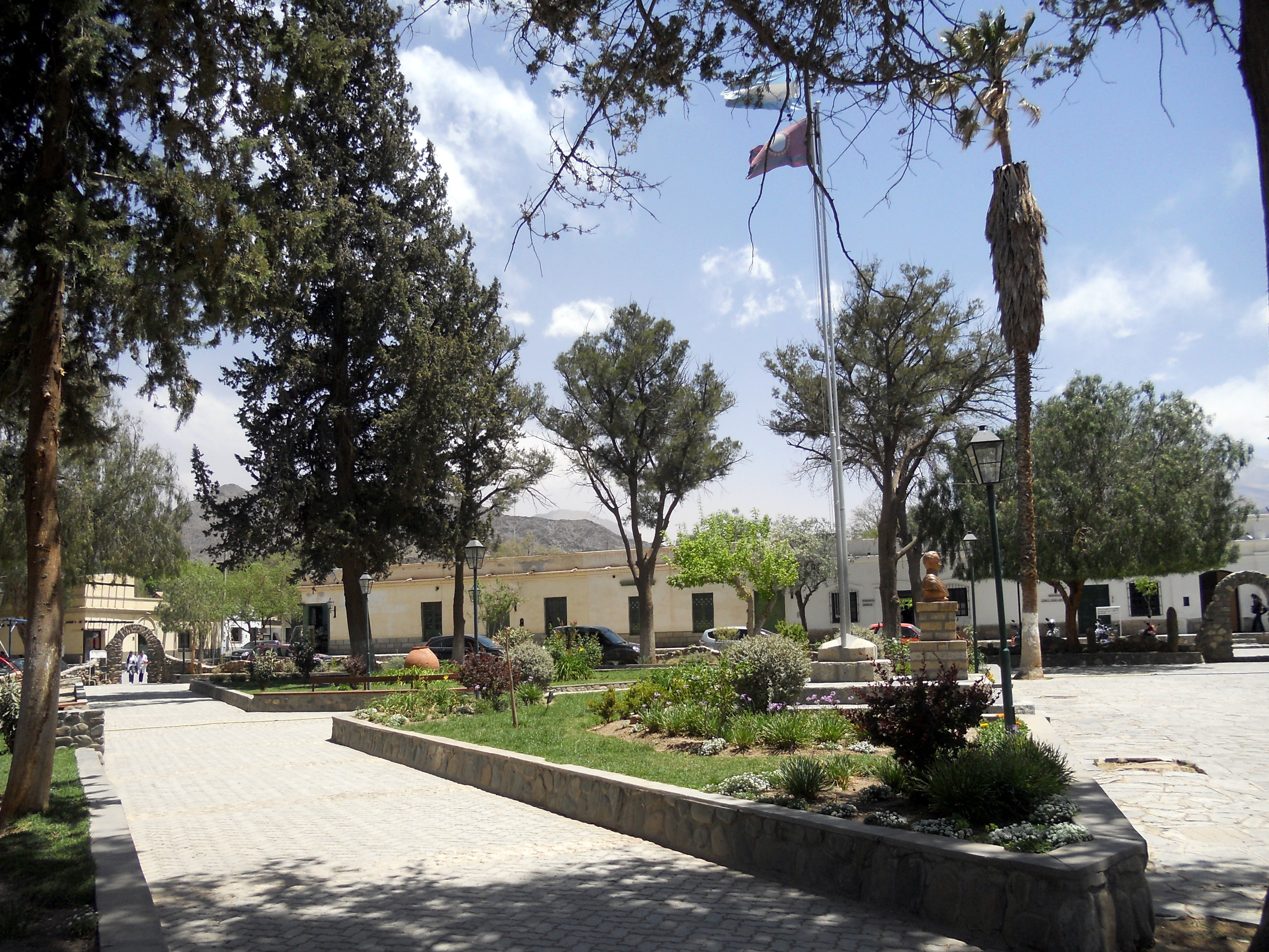 cachi